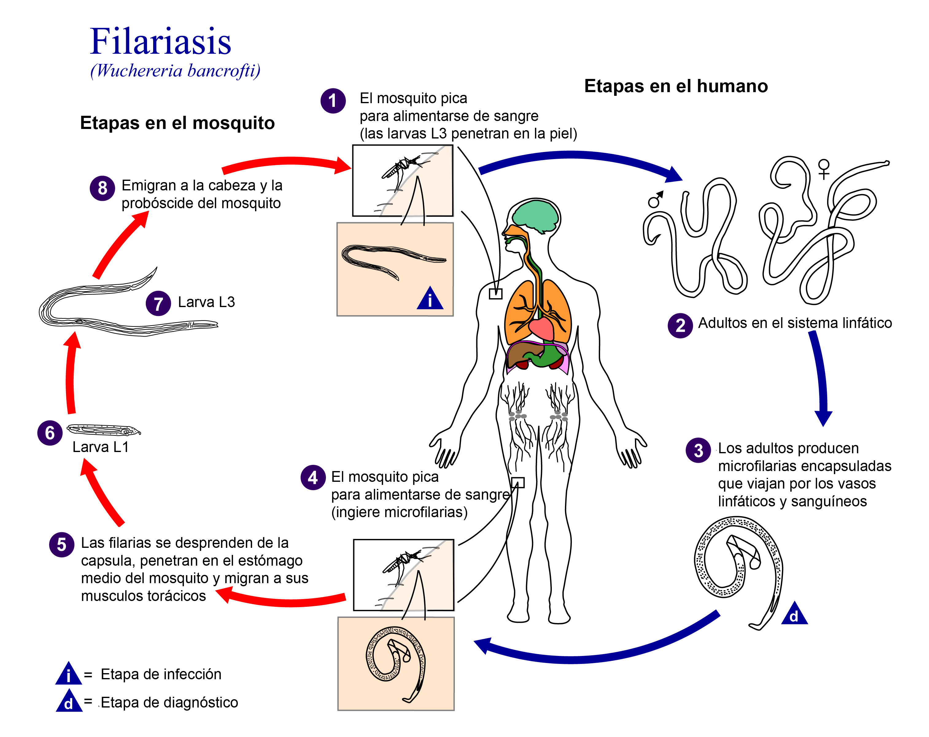 The life cycle of Wuchereria bancrofti Filariasis agent (labels in Spanish).